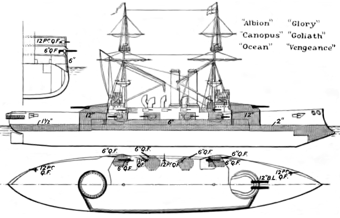 Right elevation, deck plan and hull section depicting British Canopus class battleship. Top diagram (right elevation) shows armour thickness in inches. Bottom diagram (deck plan) shows gun sizes in inches.